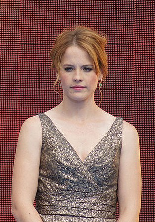 Katie Leclerc - Disney parks Christmas Day Parade 2011 Taping.